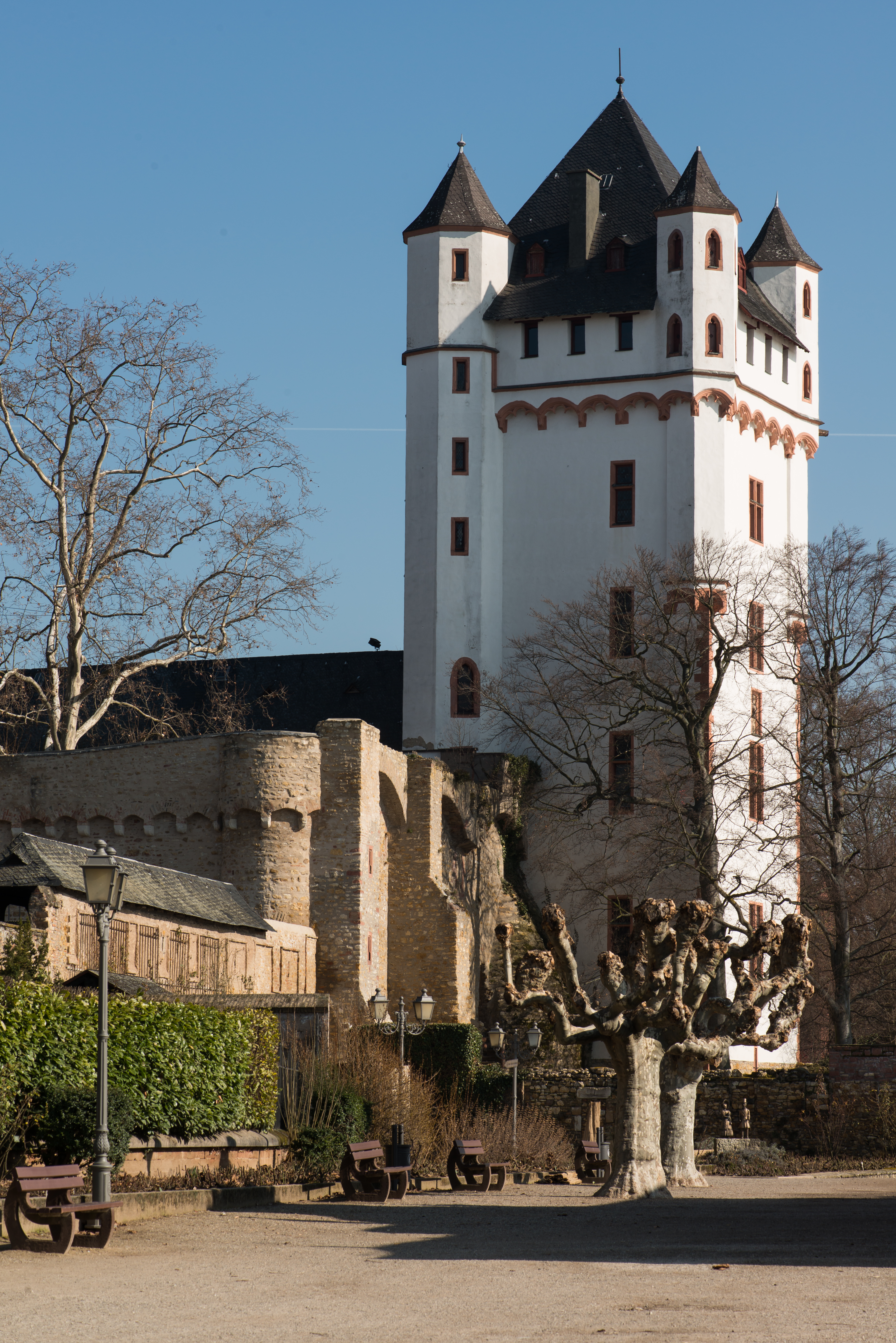 Castle Eltville Germany